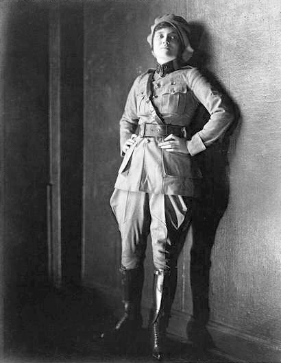 Photograph of Peggy Wood in the Broadway musical Buddies